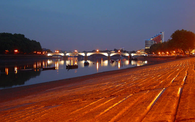 Putney Bridge at night, taken by David Edgar on 2005-08-19.